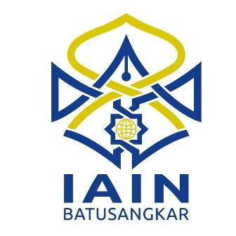 Logo for IAIN Batusangkar